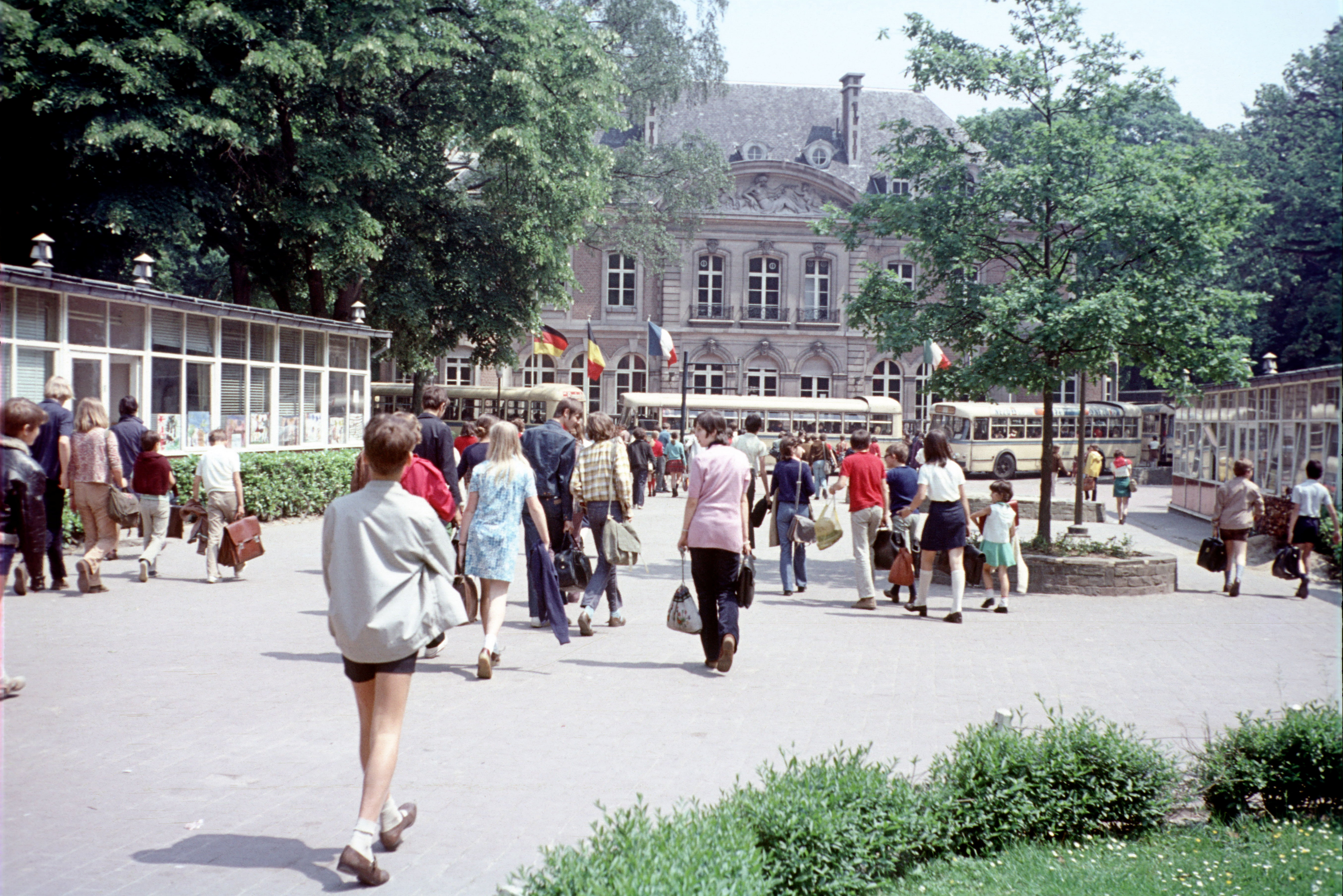 European School, Brussels I in 1971. Students and parents walk past the primary school pavillions at the end of the school day. Flags of the then six European Communities states and signatories to the Statue of the European School fly in front of the schools' main administrative building.